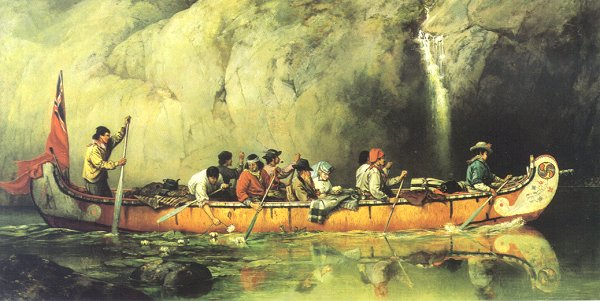 Scene showing a large Hudson's Bay Company freight canoe passing a waterfall, presumably on the French River. The passengers in the canoe may be the artist and her husband, Edward Hopkins, secretary to the Governor of the Hudson's Bay Company.